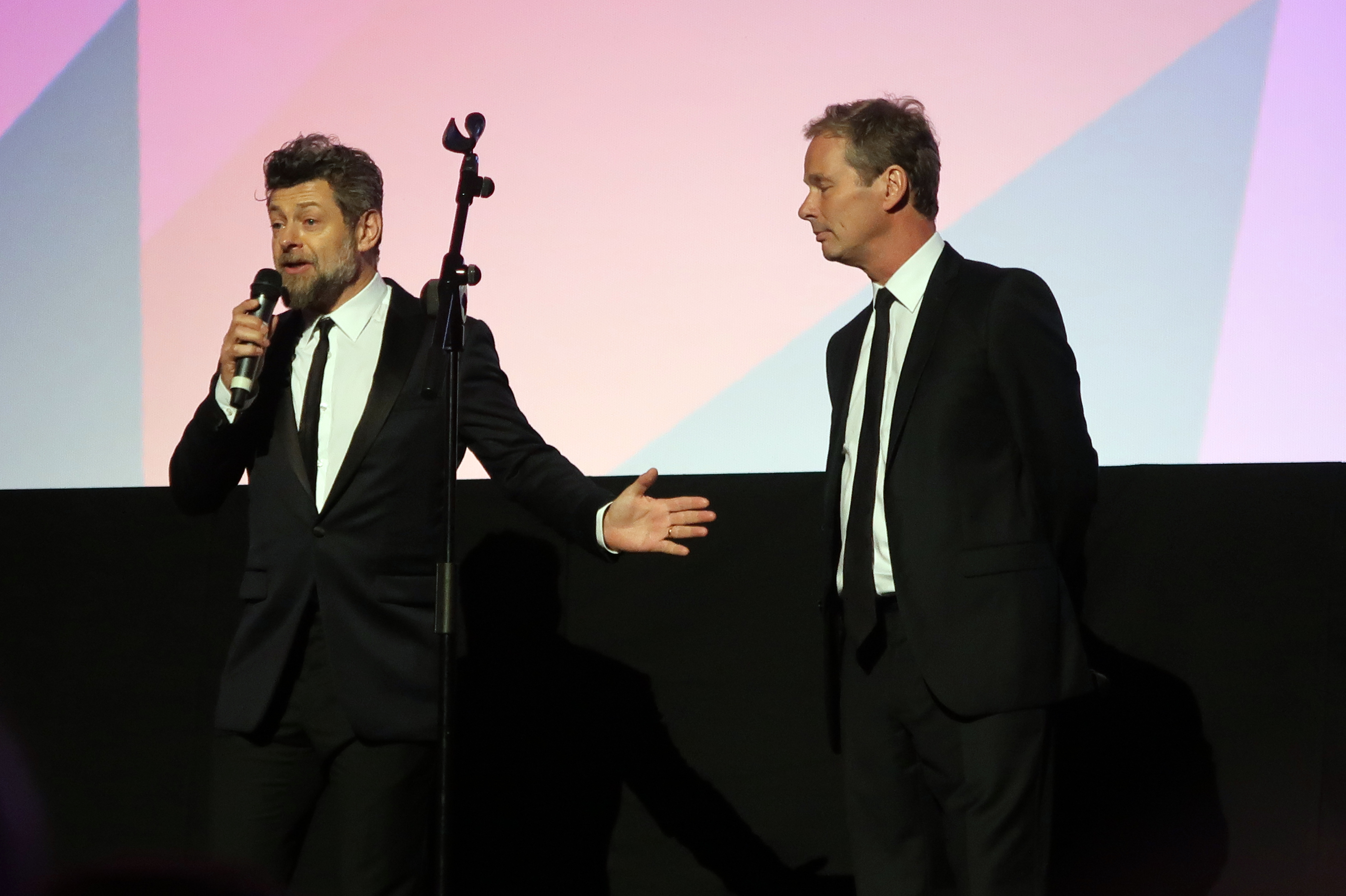 Andy Serkis and producer (and son of Robin and Diana Cavendish) Jonathan Cavendish